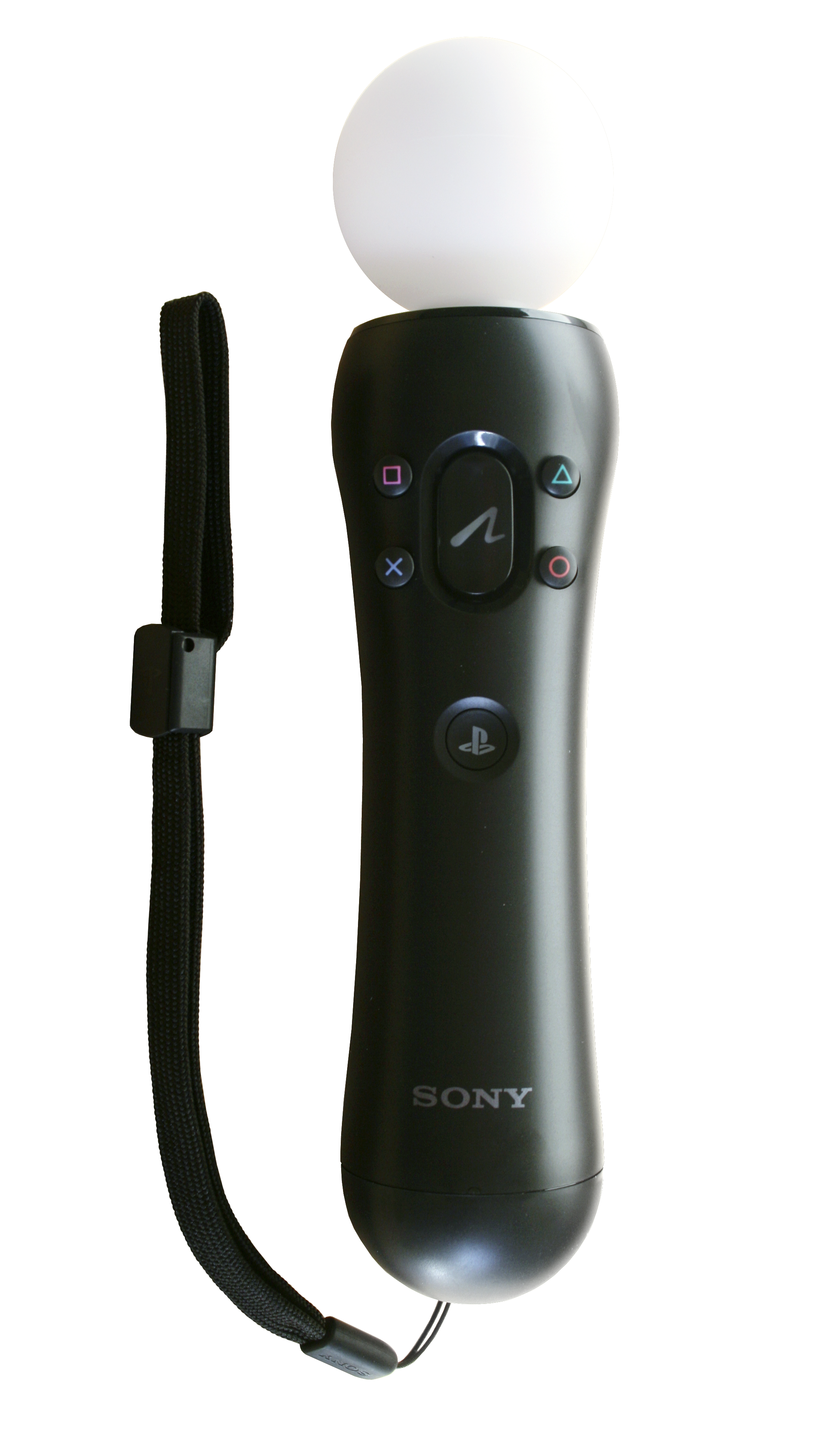 PlayStation Move Motion Controller.